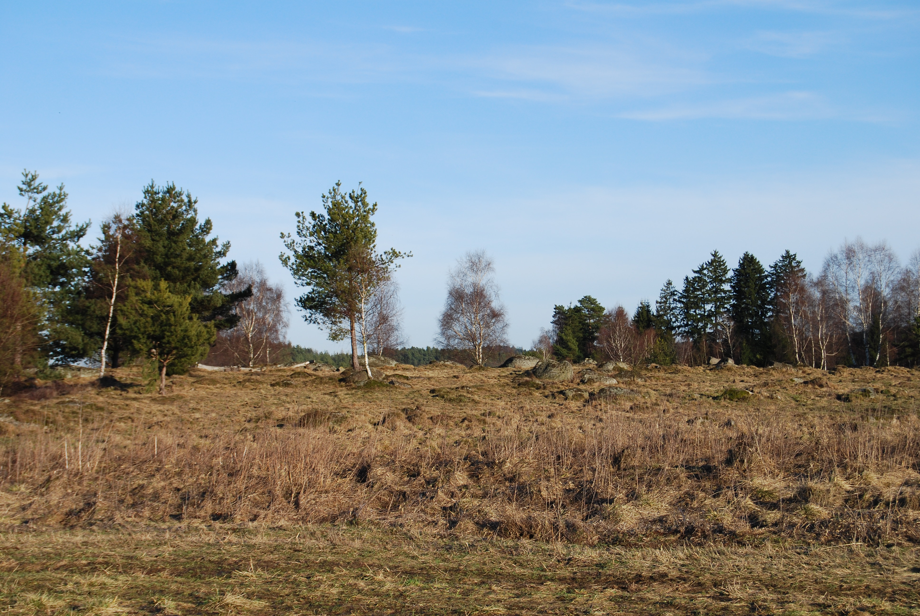 Nature reserve Velká Kuš near Kadov, Strakonice District, Czech Republic